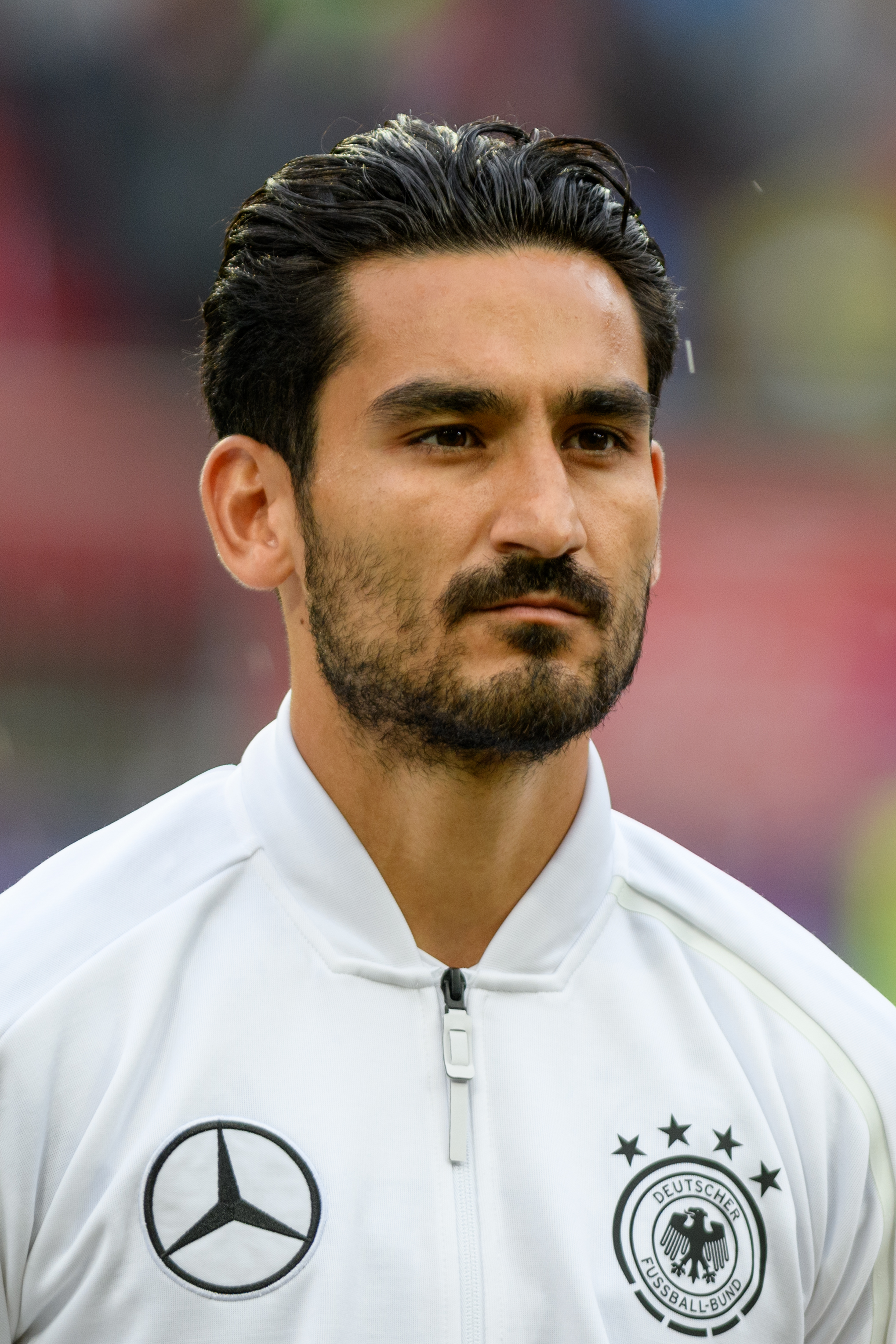 FIFA Friendly Match Austria vs. Germay 2018/06/02 in Klagenfurt/Woerthersee. Picture shows İlkay Gündoğan (GER).